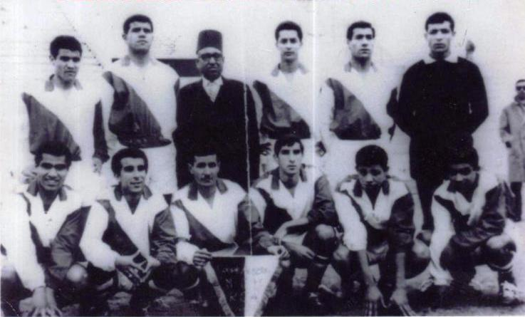 Mouloudia Club of Oran (1963)